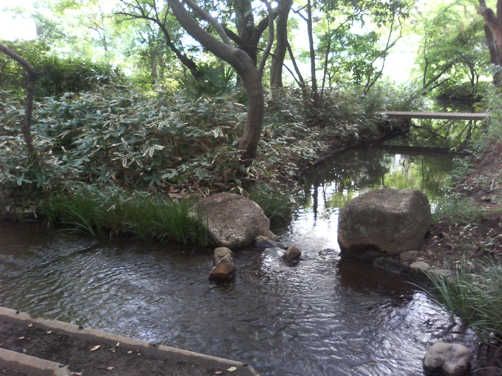 The Susugi Brook on the Musashi University campus in Tokyo, Japan